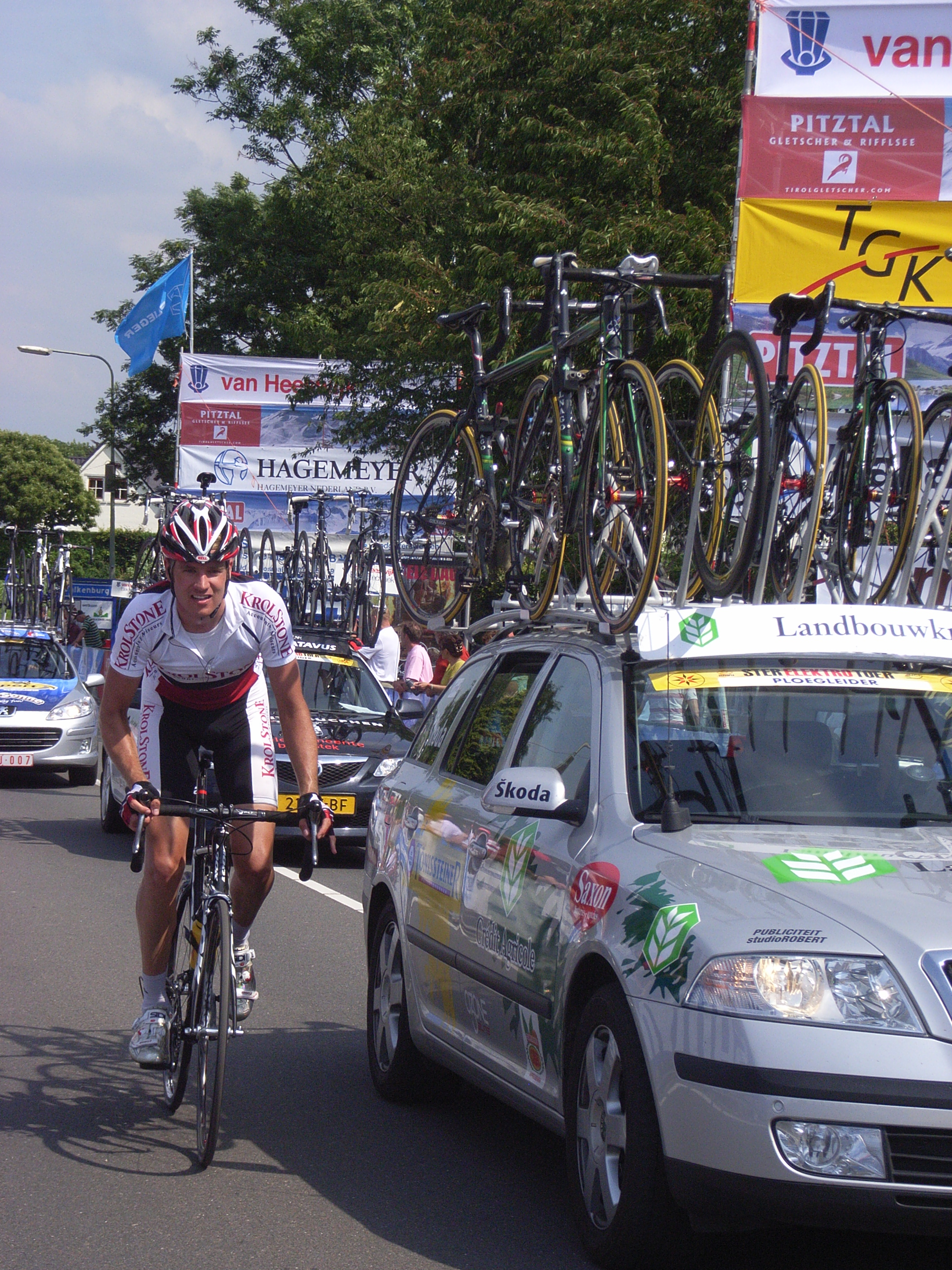 Cyclist Scheuneman in the Ster Electrotour 2008